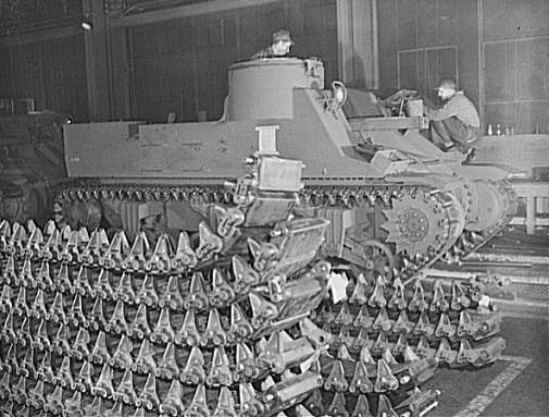 New M7 Priest 105 mm self-propelled howitzer carriages roll down the production lines of the American Locomotive Company in Schenectady, New York. These fast, easily maneuvered cannon carriers are typical of the new mechanized equipment being provided to American troops.